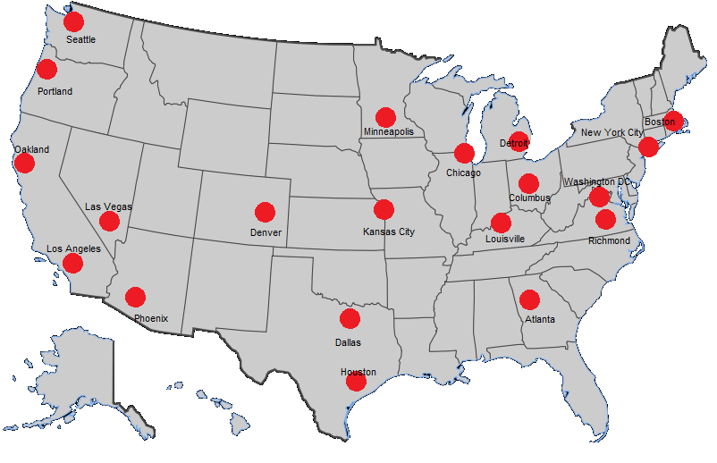 Areas with over 100 protesters as May 30, 2020